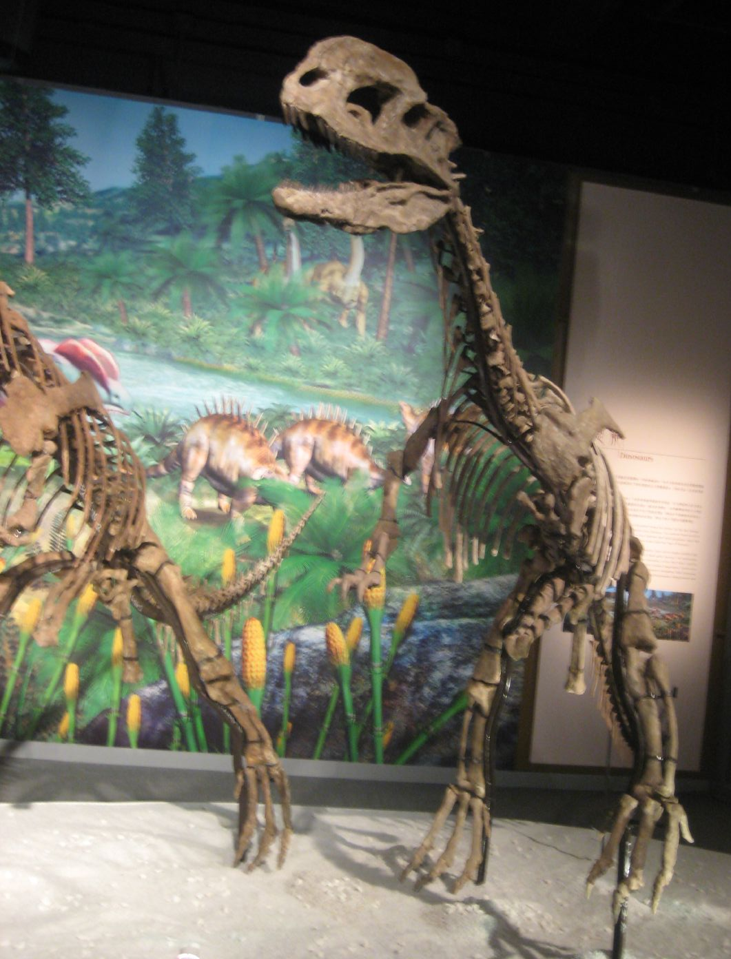 These are all dinosaurs native to China - or what was once China, I suppose would be more reasonable.